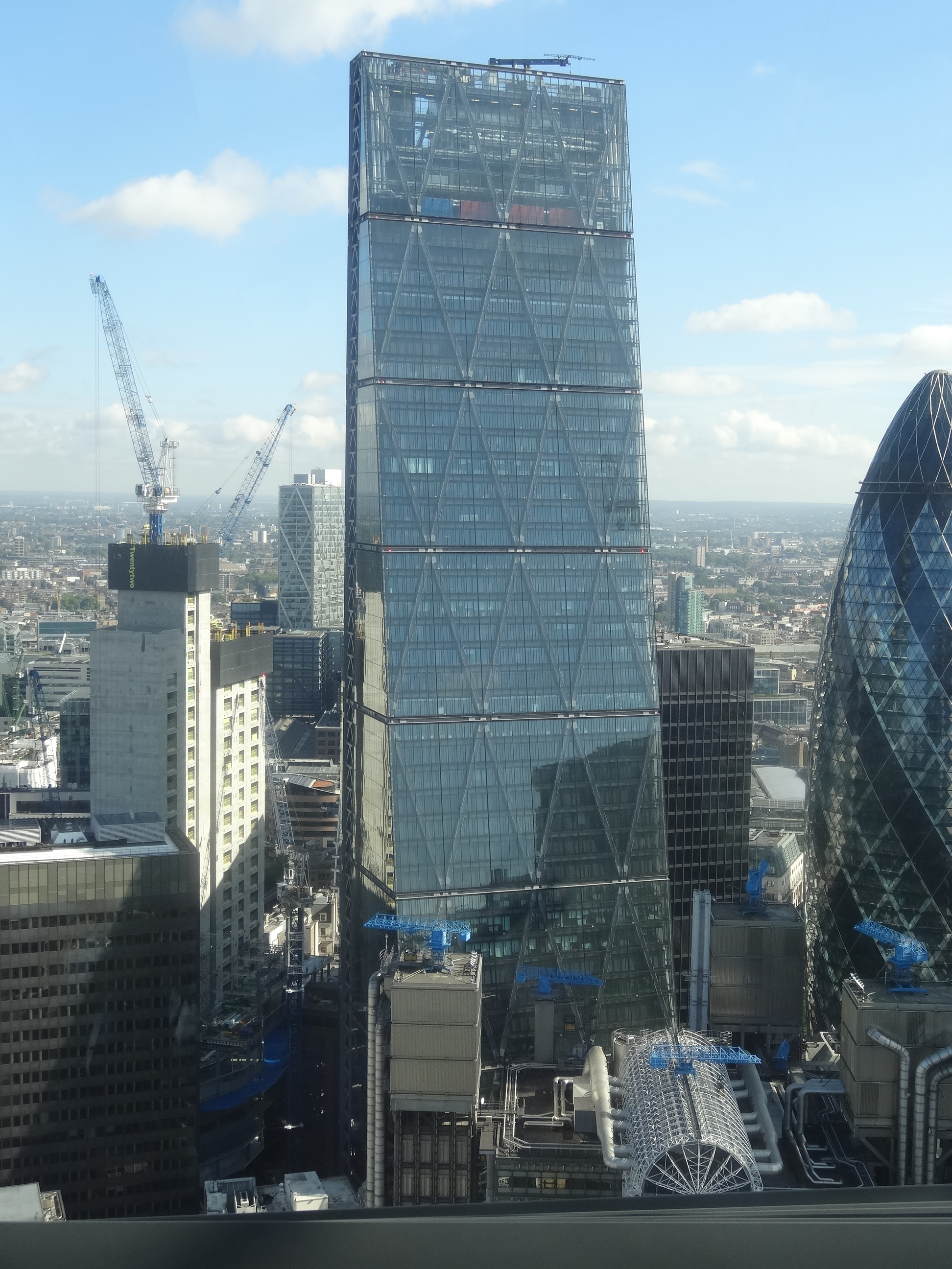 Views to the north from 20 Fenchurch Street. The Leadenhall Building